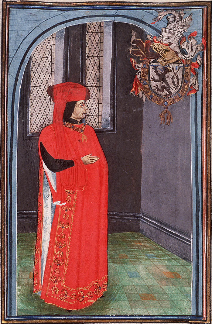 Statuts, Ordonnances et Armorial de l'Ordre de la Toison d'Or (Statutes, Ordonnances and armorial of the Order of the Golden Fleece) Place of origin, date: Southern Netherlands; 1473. Added sections: Southern Netherlands; 1478 or shortly after and 1491 or shortly after Material: Vellum, ff. 86, 249x187 (167x106) mm, 23 lines, littera cursiva (lettre bourguignonne). French. Binding: 18th-century brown leather Decoration: 1 full-page miniature (170x115 mm) with border decoration; 92 miniatures (185/155x120/100 mm); 1 historiated initial (80x90 mm) with border decoration; decorated initials with border decoration (ff., Added section: miniatures ; 4 drawings for miniatures (not finished) Provenance: Presented in 1473 by Gilles Gobet, King of Arms of the Order of the Golden Fleece, to Charles the Bold, Duke of Burgundy and the other Knights during the Chapter of the Order held at Valenciennes; Treasure of the Golden Fleece, Brussls; taken away by the Treasurer C.-F. Humyn (d. 1735) or his daughter C.Ch. de Corte; by legacy to her daughter M.-L. de Corte, wife of Ph.-E. de Poederlé; purchased in 1781 at the Poederlé sale by G.-J- Gérard of Brussels; acquired in 1832 as part of the Gérard collection (no. A 27)